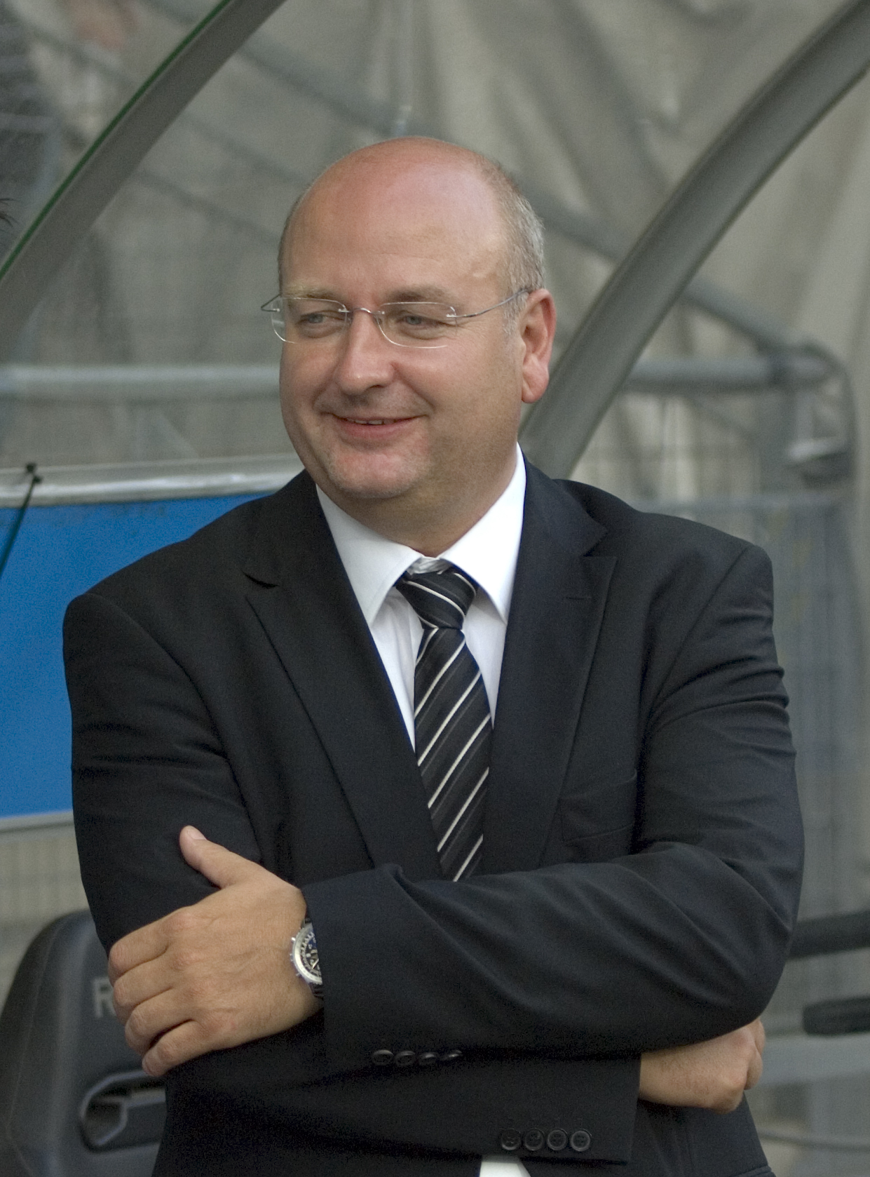 at the game SK Sturm Graz vs. FC Wacker Innsbruck. Location: UPC Arena, Graz, Austria Camera: Nikon D2X Lens: Sigma 28-70mm 1:2,8 EX DG f/2,8 Film / Speed: ISO 400 Comment